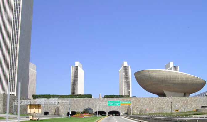 View of the Empire State Plaza from the street below. Taken from Take Off! My Life and Times in Toronto.